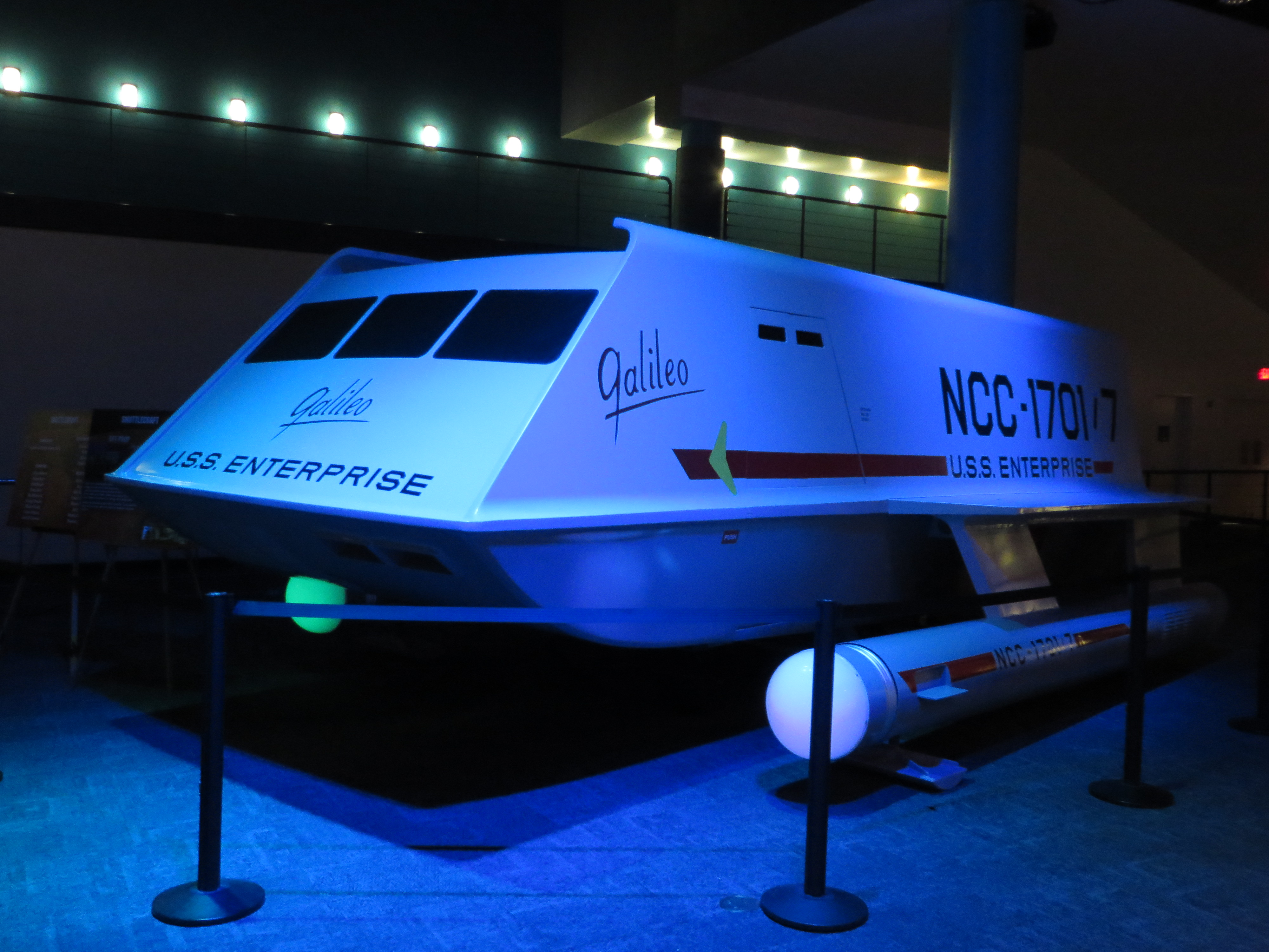 Galileo Shuttle from the NCC 1701 Starship Enterprise. This is the real deal. It was used on screen in the original (1960s) series. Rescued from rusting away in a barn, and auctioned off some years ago, fully restored to its original glory.